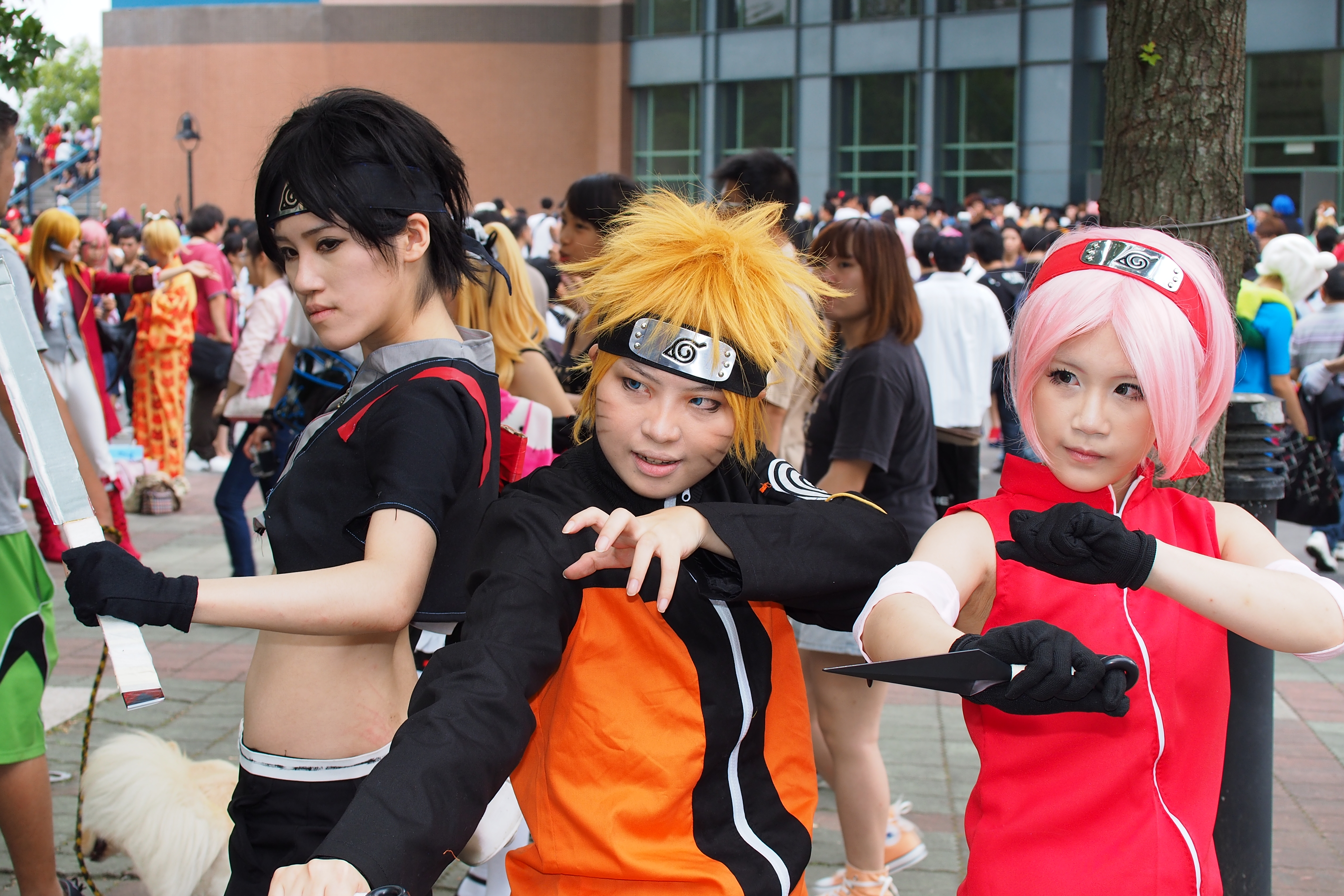 Fancy Frontier 22 Fancy Frontier 22